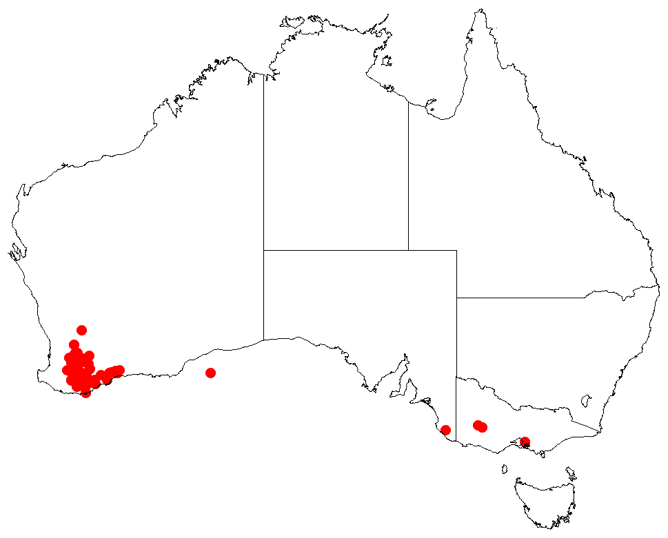 Hakea lehmanniana Occurrence data downloaded from Australasian Virtual Herbarium on 22 November 2018 using